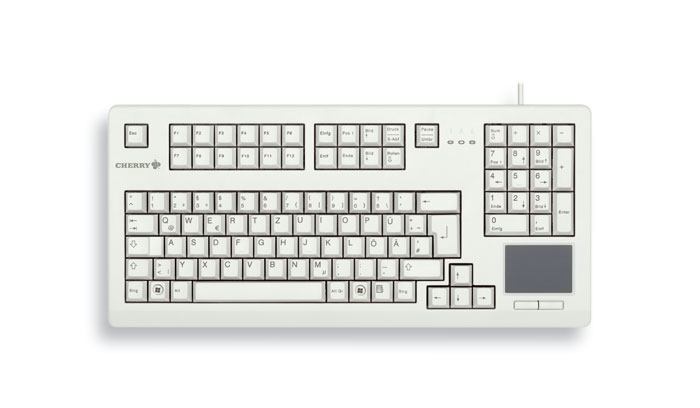 Touchpad at keyboard G80-11900 by «Cherry GmbH»